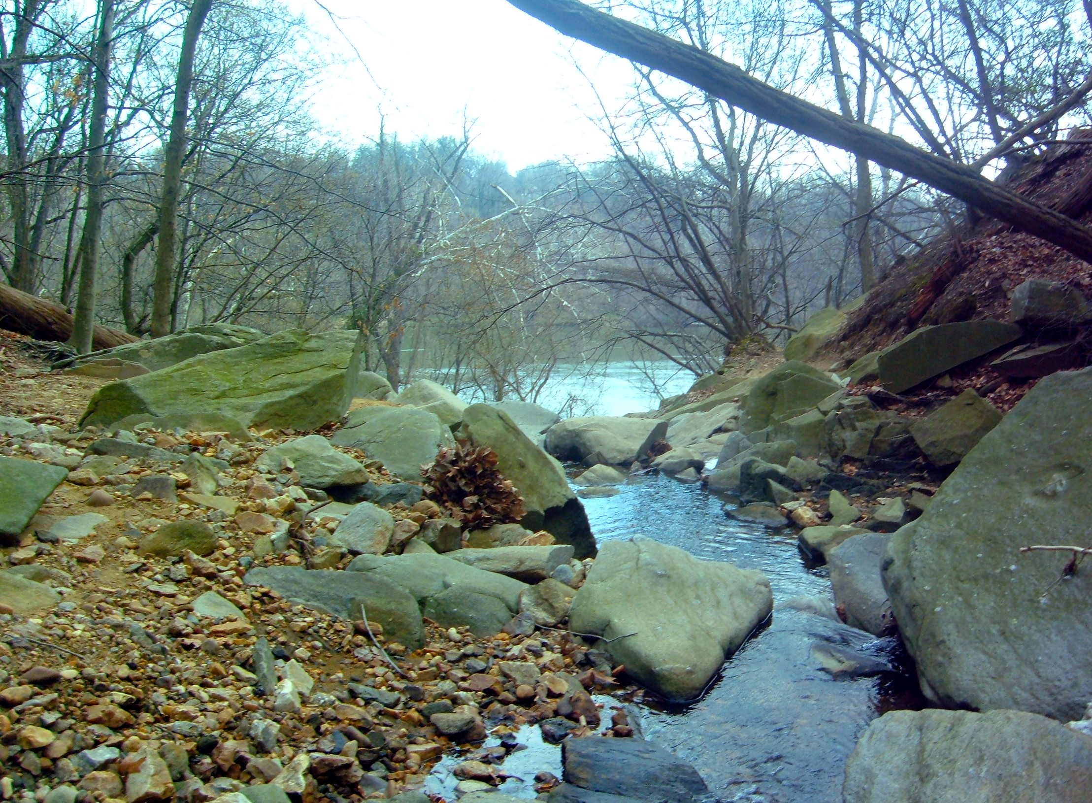 Windy Run near its confluence with the Potomac River. Photo by Kevin Borland.